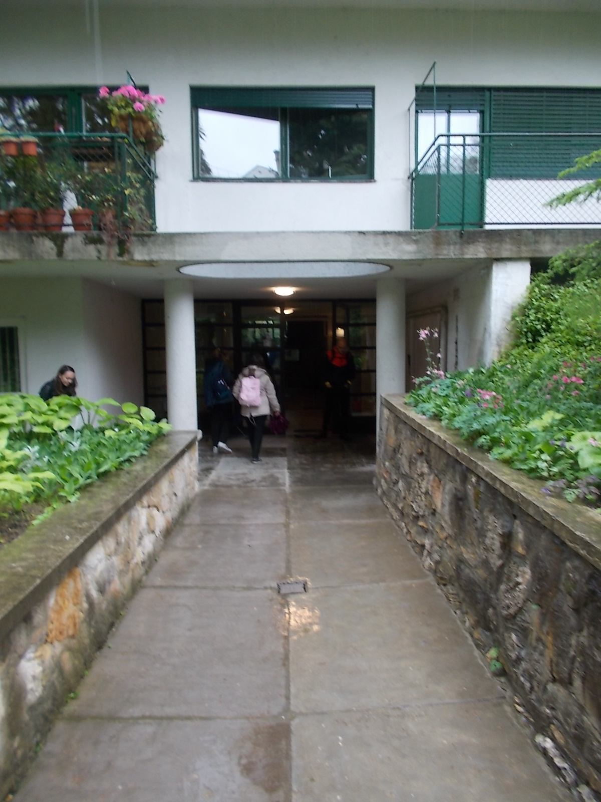 Bauhaus building. Planned by János Wanner studied at Le Corbusier office in Paris, built in 1935, ordered by Ilona Simon and others. - 7 Himfy street, Szentimreváros neighborhood, 11th district of Budapest.